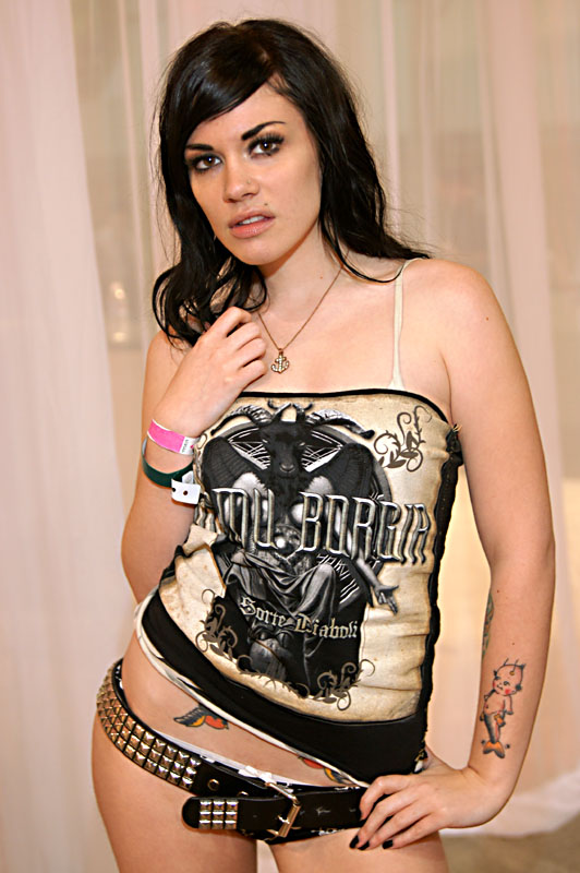 Andy San Dimas at the 2008 AVN Expo